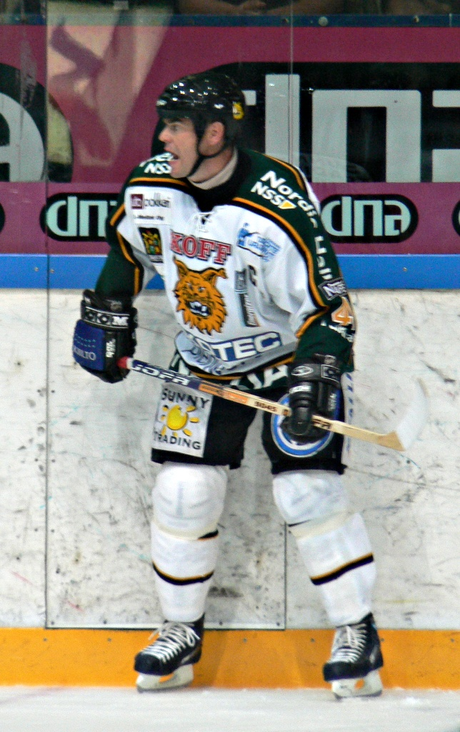 Ice hockey player Raimo Helminen of Ilves Tampere in the 2007 Tampere Cup